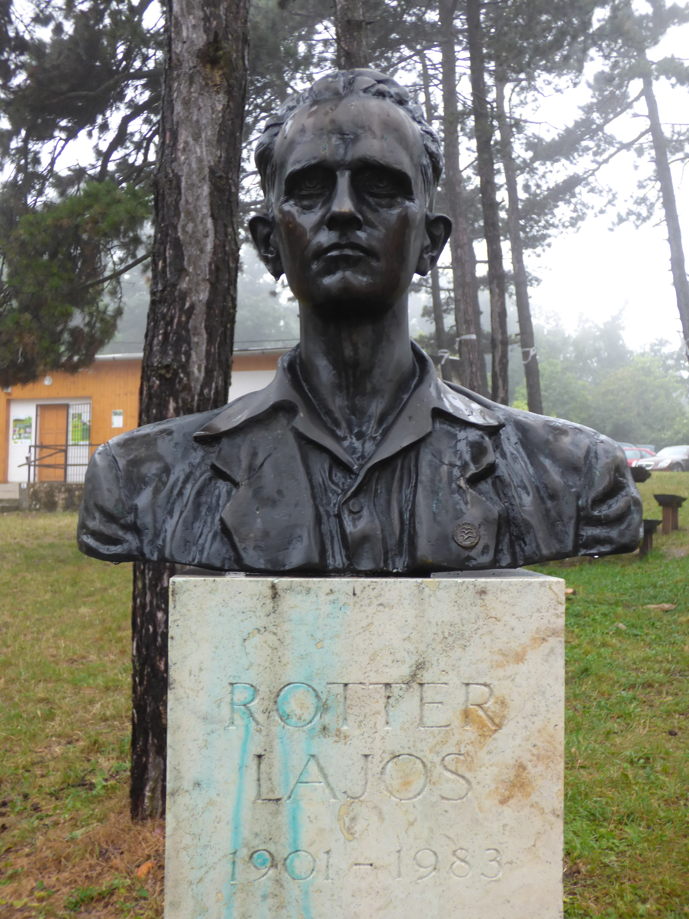 Rotter Lajos mellszobra (Béres János, 1993) Budapest, III. kerület, Hármashatár-hegy, Pilótaotthon parkjában